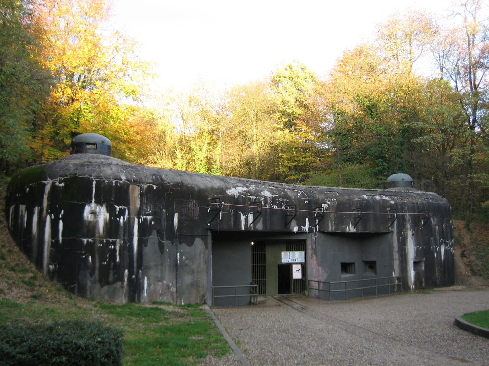 Work of Schoenenbourg, ammunitions entrance (Block 7)